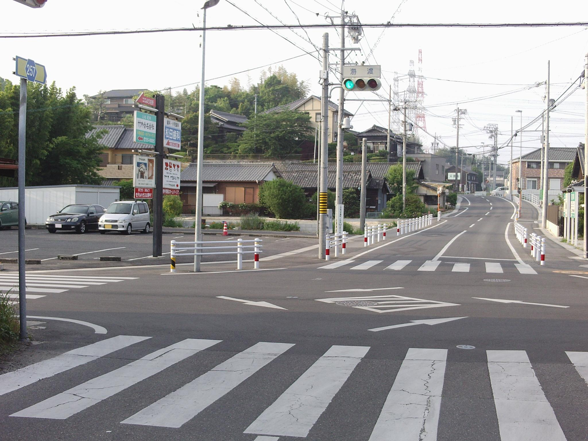 Aichi prefectural road No.257 in Okada, Chita, Aichi.